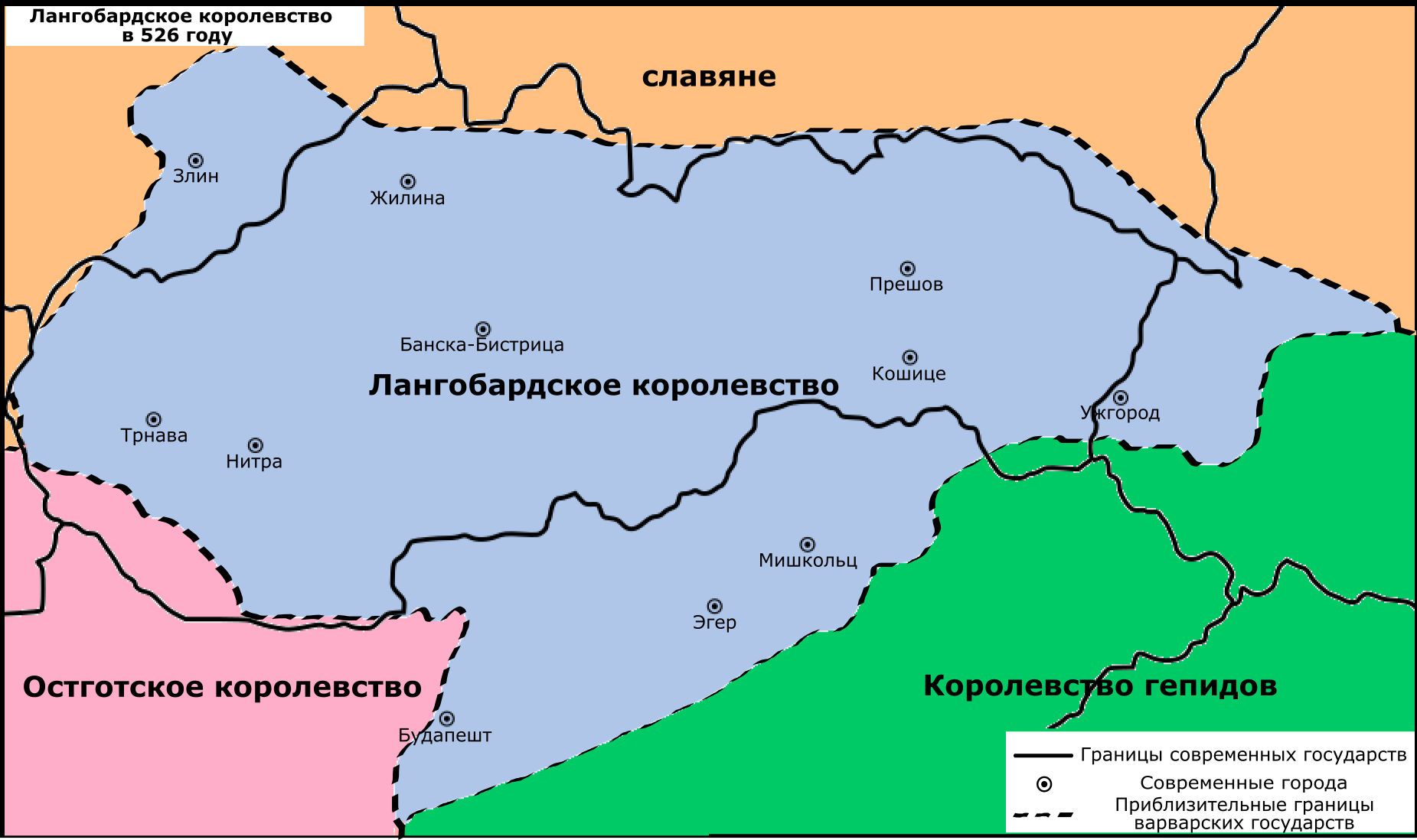 State of the Lombards in 526 AD